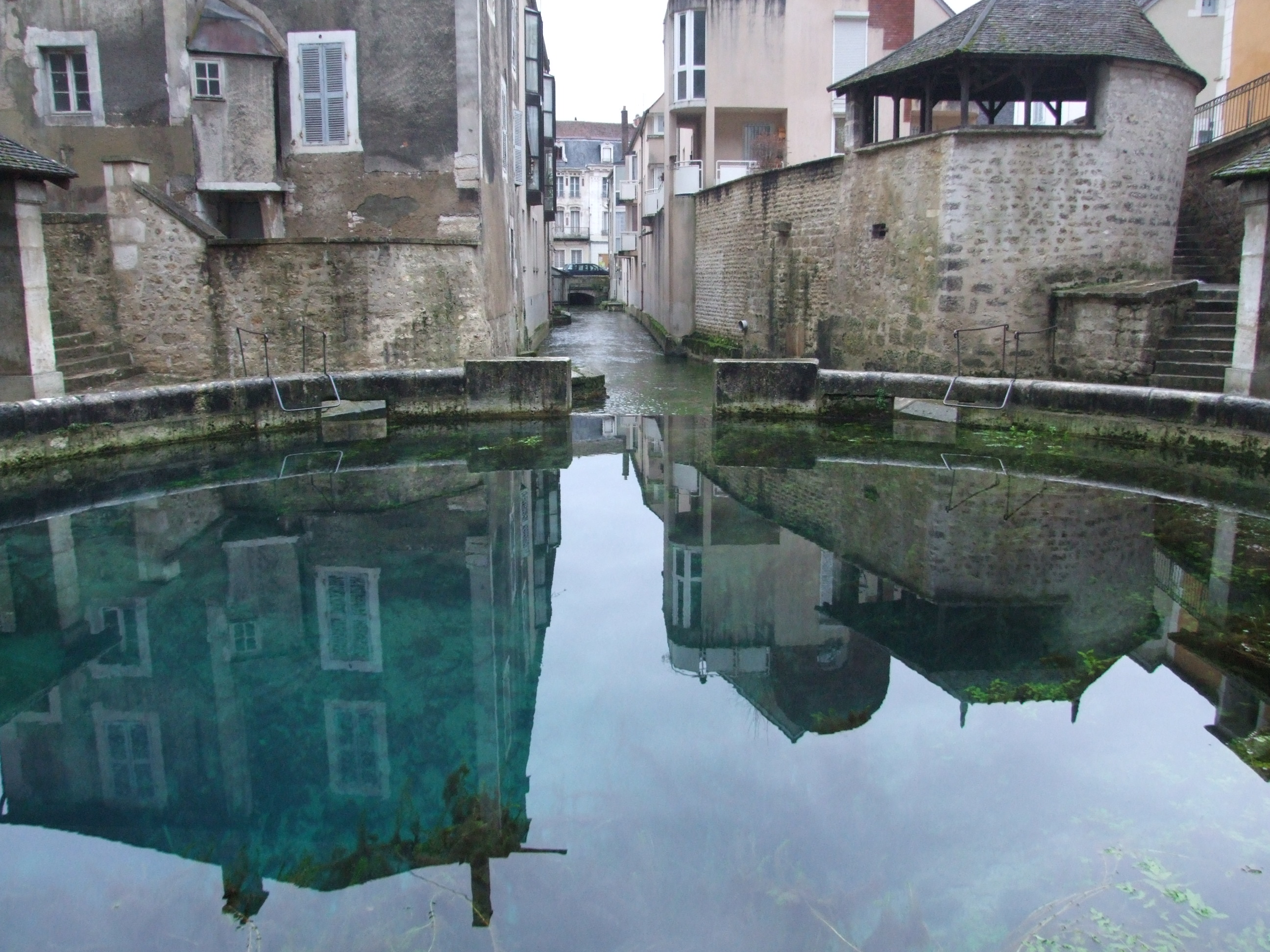 Tonnerre, Burgundy, FRANCE